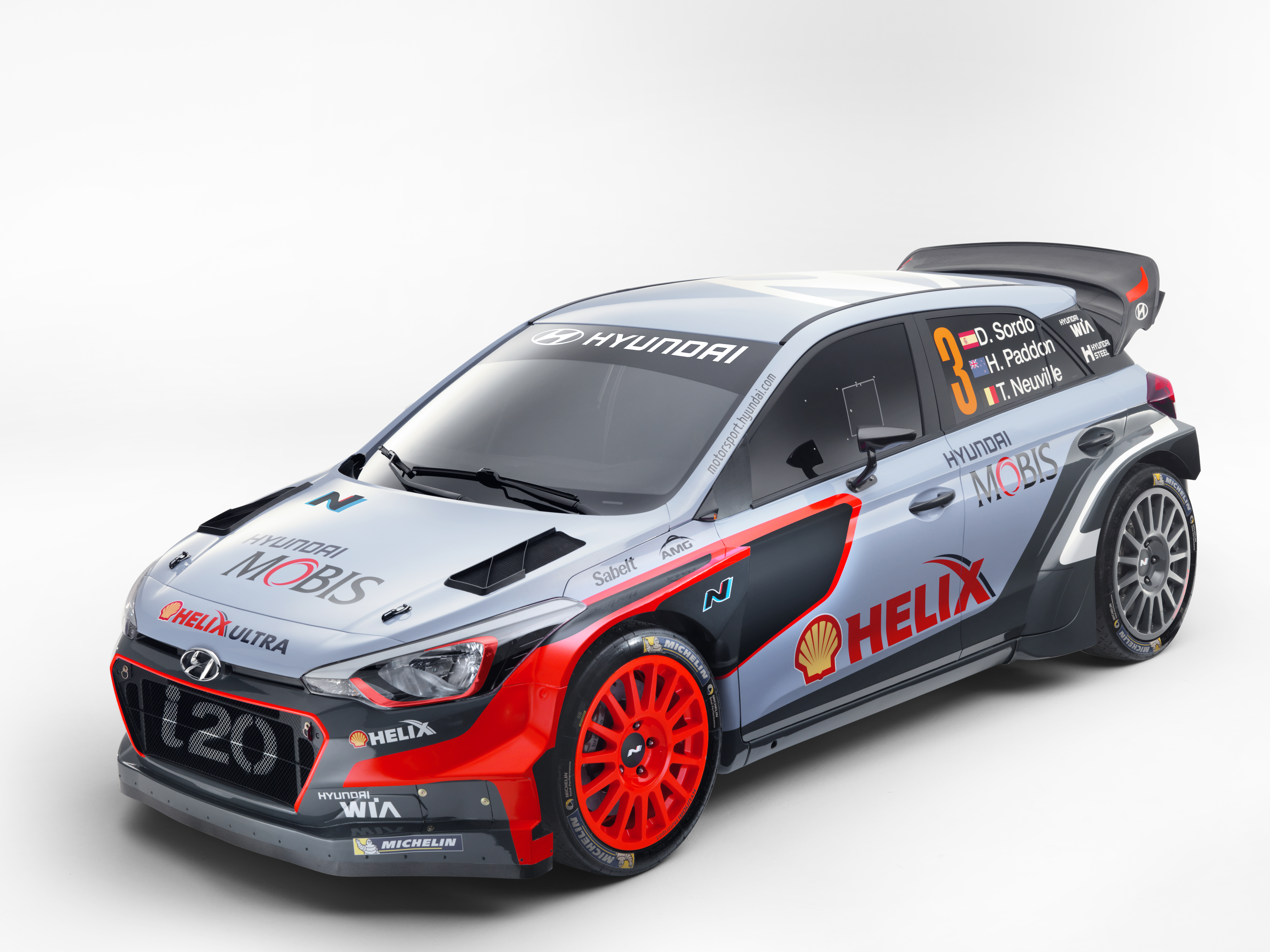 The New Generation Hyundai i20 WRC 2016, set to compete in the 2016 World Rally Championship season for Hyundai Motorsport.